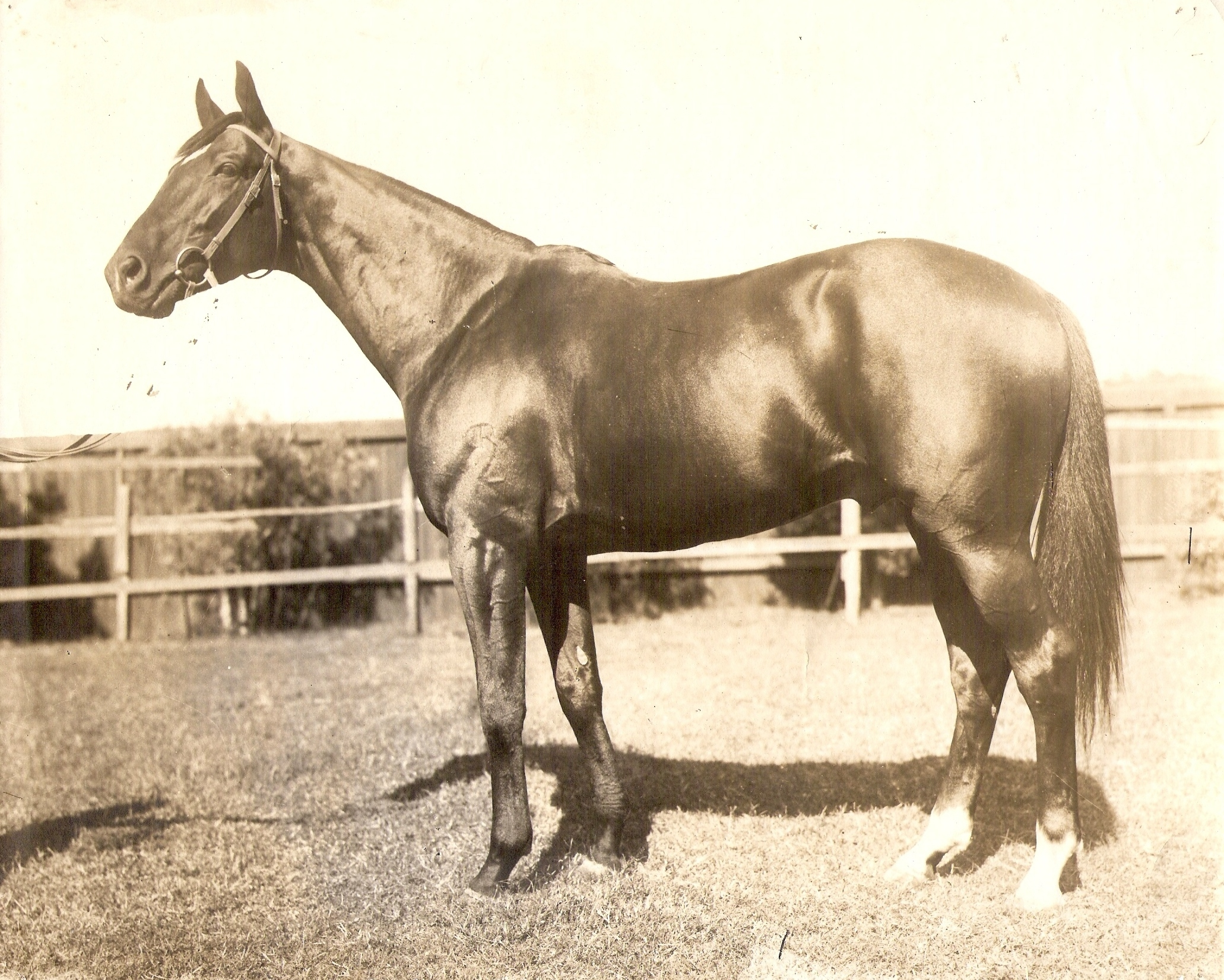 Poseidon scanned from original photo